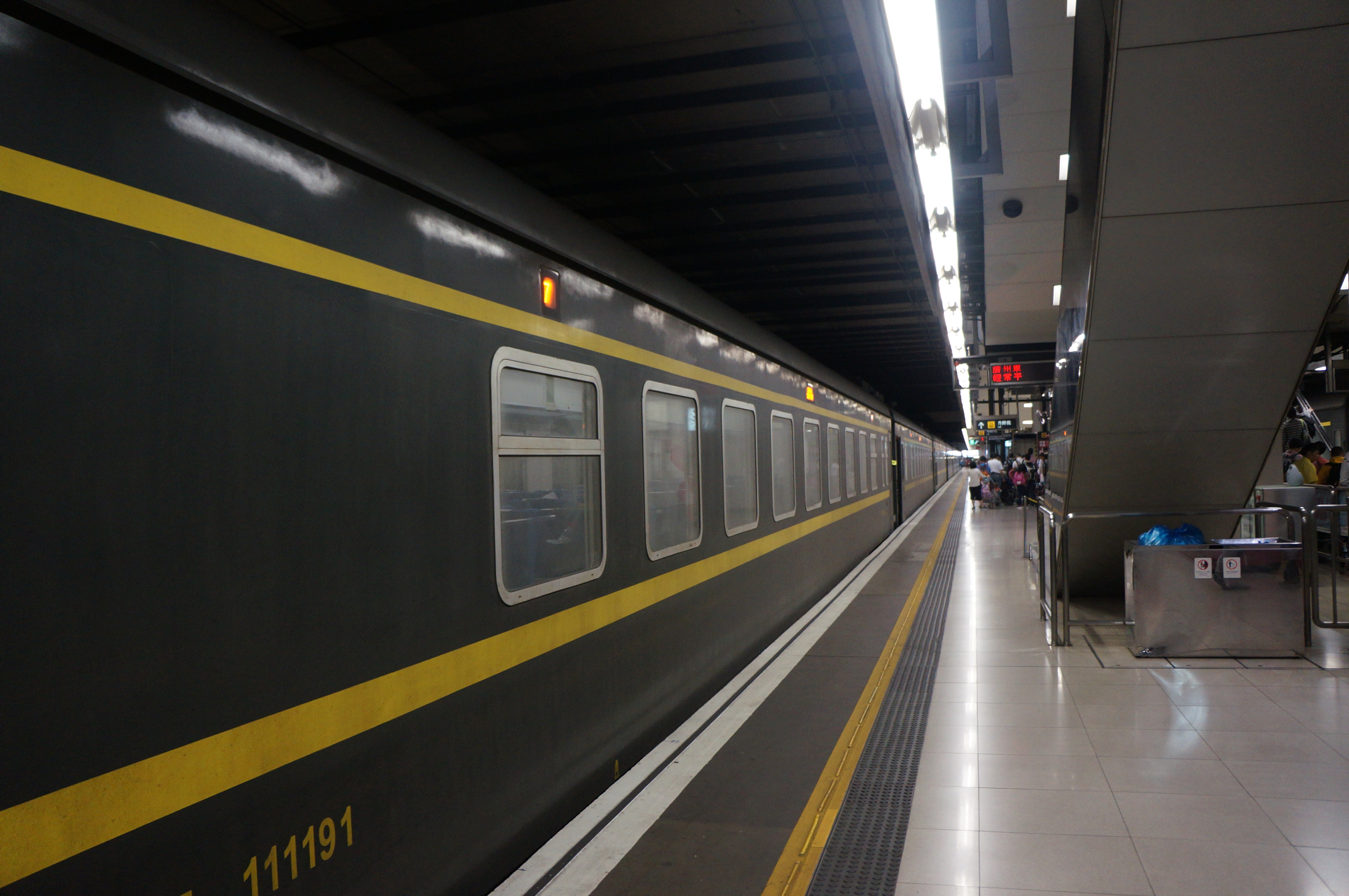 201609 RZ25T-111191 at Hung Hom Station